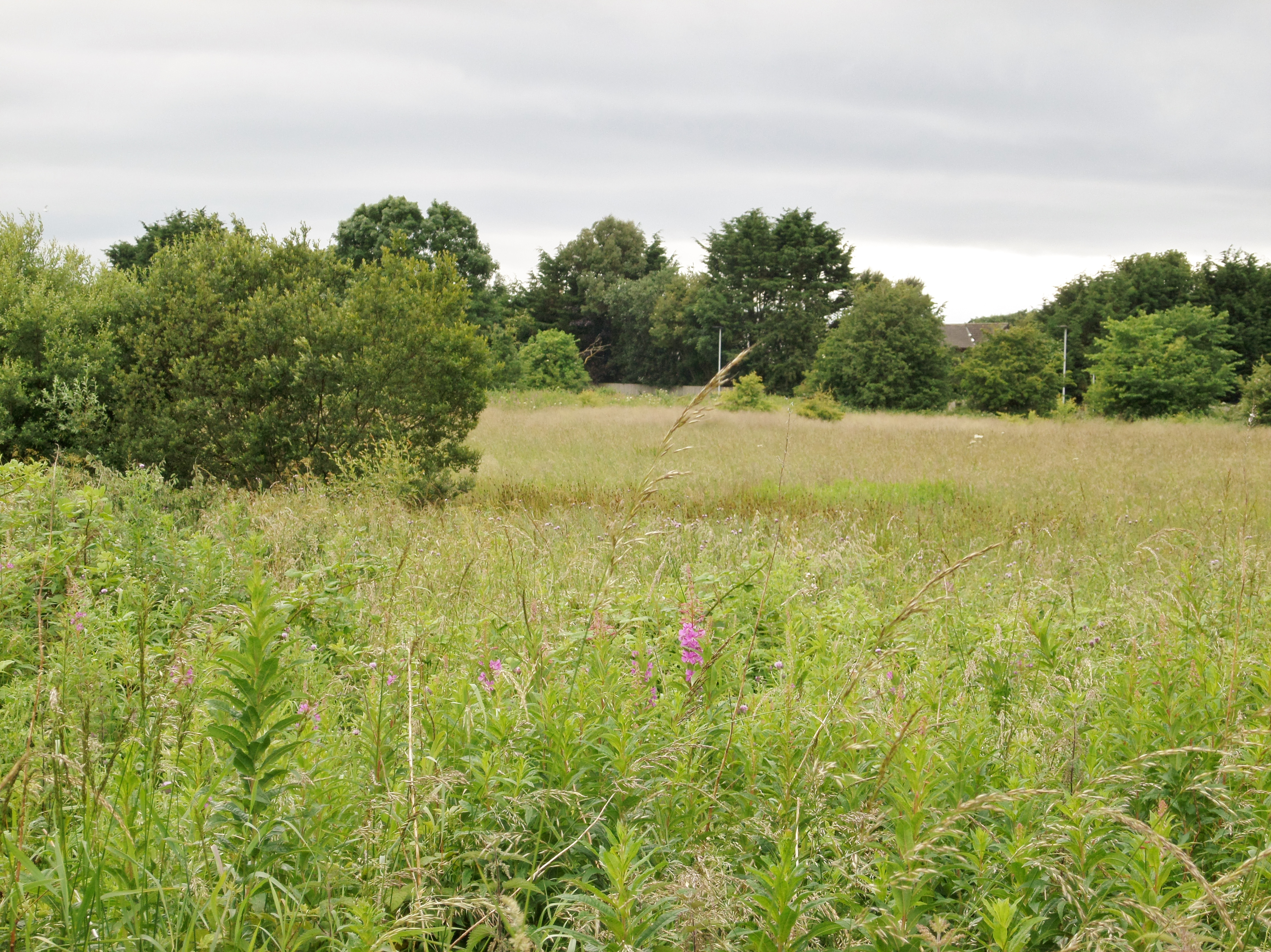 Site of the old Newton Loch, Sanquhar Farm, Newton-on-Ayr, Scotland.